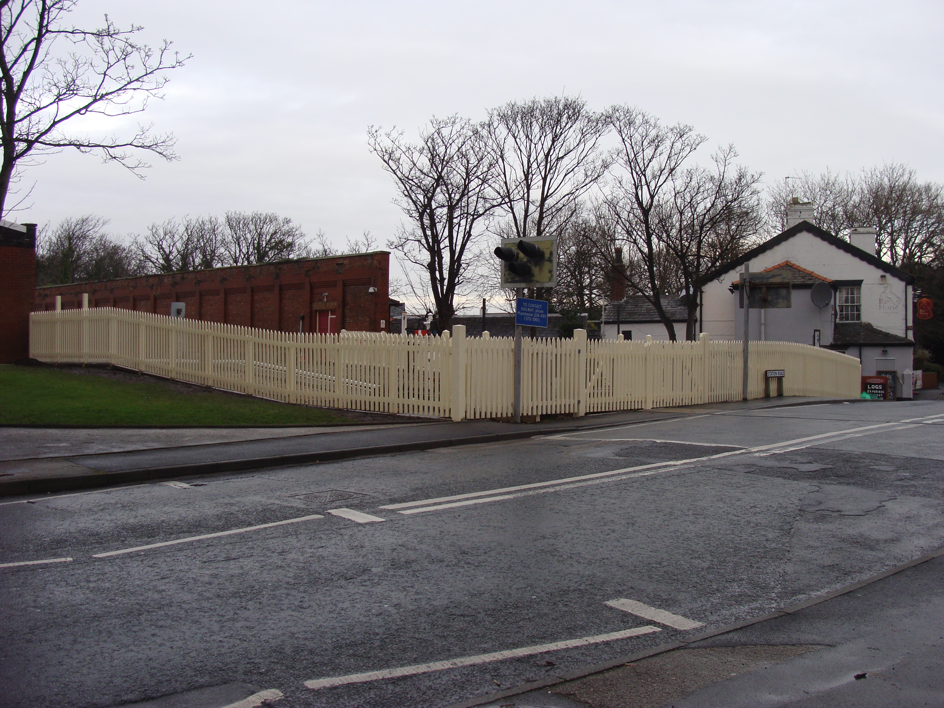 A photo of Thornton-Cleveleys Station from Victoria Road East.